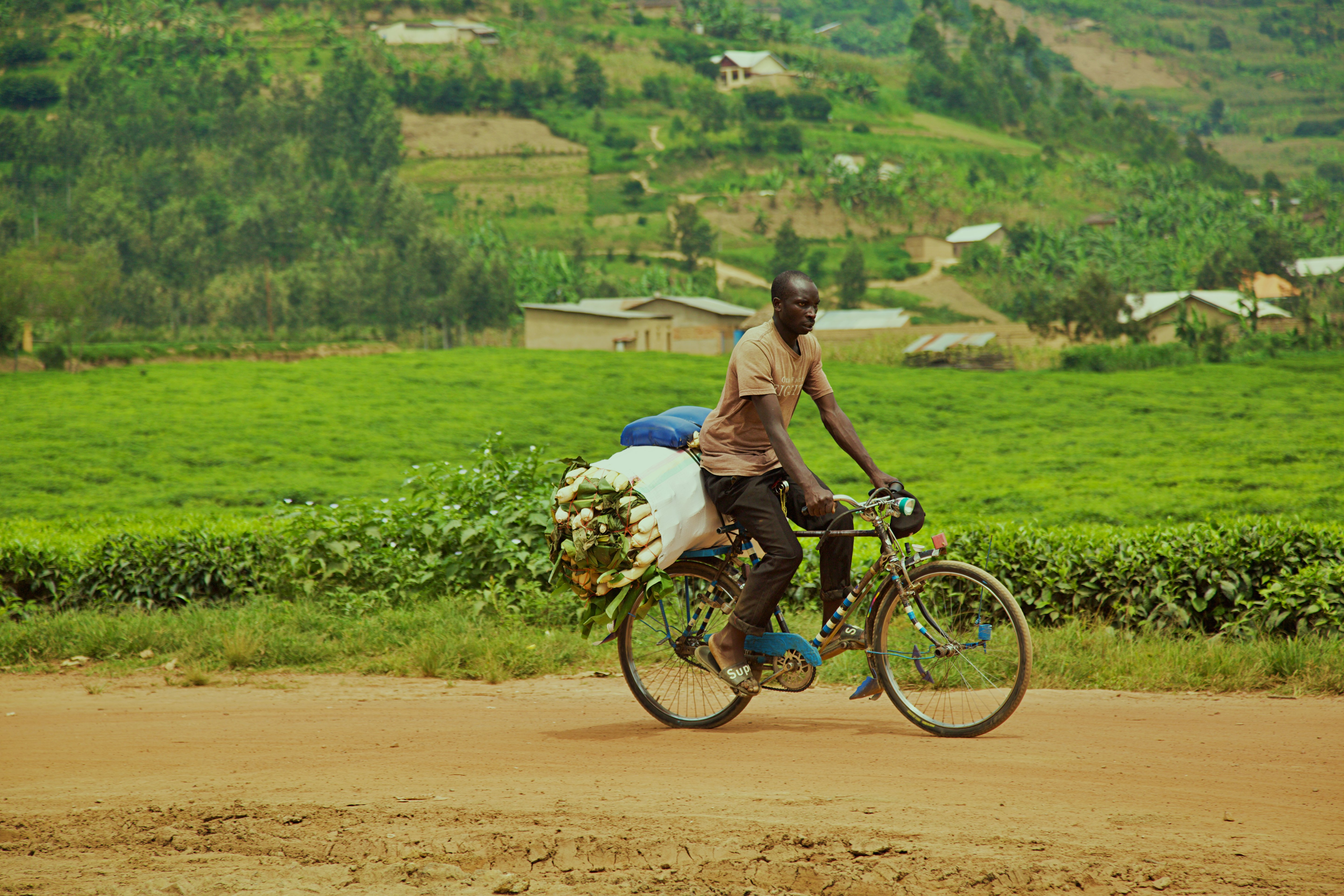 A bicycle is an important tool in every day’s life of the rural Rwandans. Used to transport people to places, as a taxi, and also as a transport system to move goods to one place to another. This picture depicts a man carrying approximately 200 Kilos of his corn harvest from his field. This picture was taken in Burera, a northern mountainous district of Rwanda where, due to the steep landscapes, it requires the physical stamina to ride a bike that uses the mechanical force to drive. The green plantation that can be seen in the background of this picture is the tea plantation, which famously known internationally as the “Rwandan tea”. This is an image with the theme "Africa on the Move or Transport" from: Rwanda